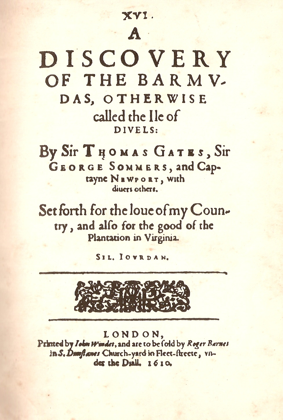 Cover of Sylvester Jordain's "A Discovery of the Barmudas", a first-hand narrative of the loss of the Sea Venture, the flagship of the Virginia Company, on the reefs of Bermuda, and the adventures of its survivors. Aodhdubh 23:02, 20 November 2006 (UTC)